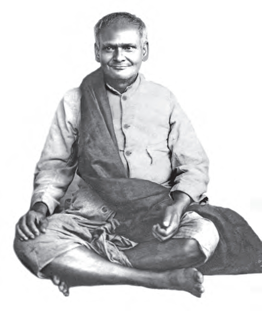 Swami Subodhananda, a direct disciple of 19th century mystic Ramakrishna Paramahamsa